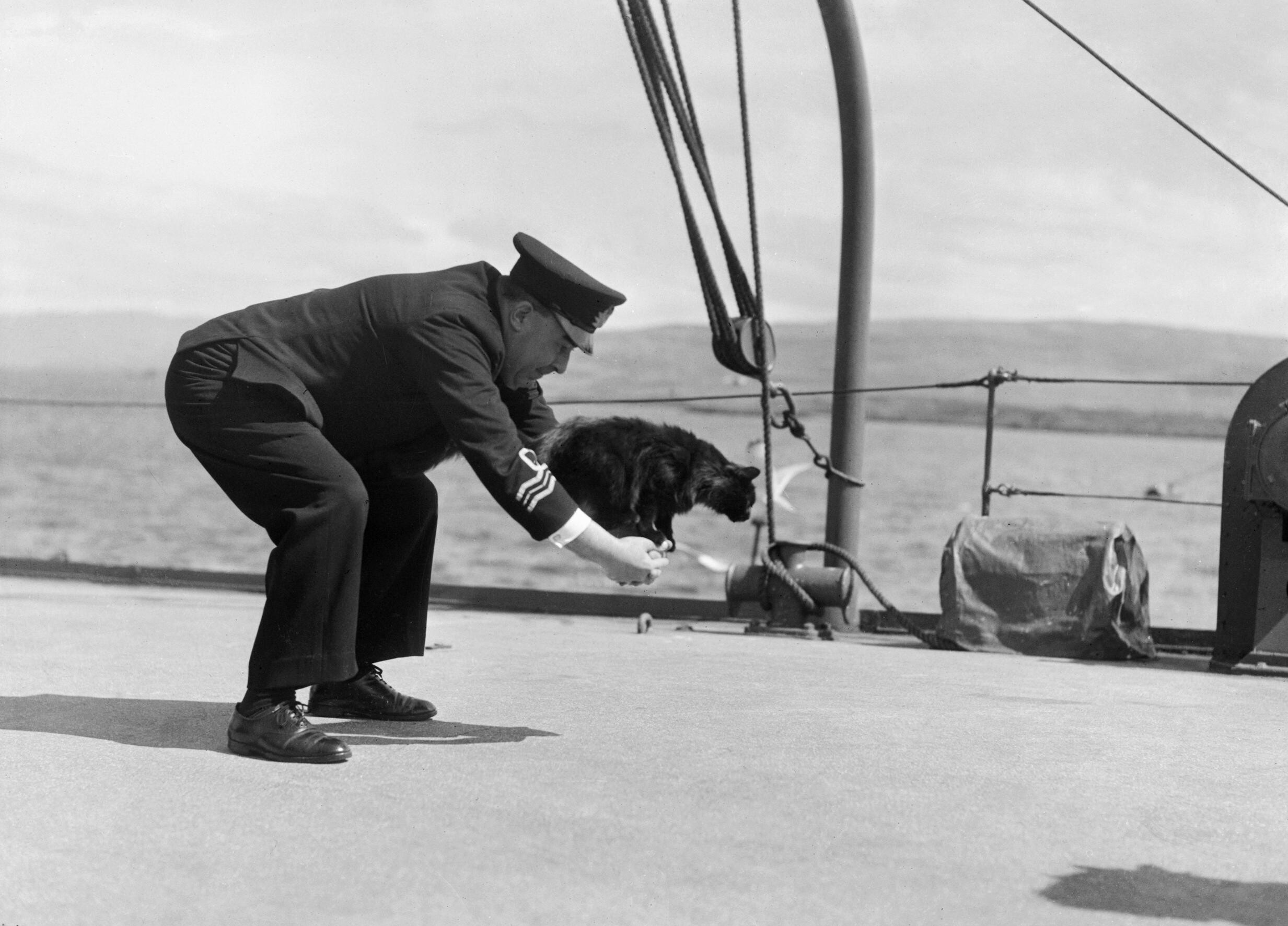 Lieutenant Commander R H Palmer OBE, RNVR plays with Peebles, the ship's cat, on board HMS WESTERN ISLES, Tobermory, Mull. According to the original caption, Peebles is very clever and shakes the hands of strangers when they enter the wardroom. Here he is 'jumping through the hoop' made by Lt Cdr Palmer's arms.